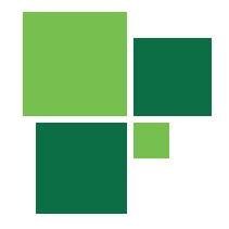 Logo Cut Planning